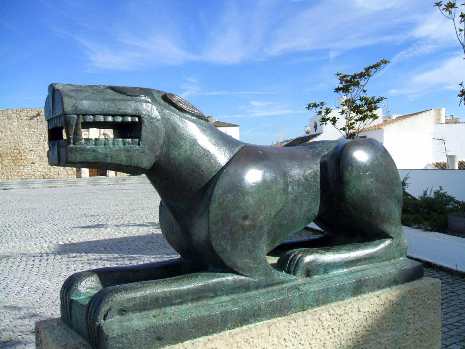 Reproducción de la leona de Baena, en la plaza del Castillo, Baena (Córdoba, Andalucía, España)